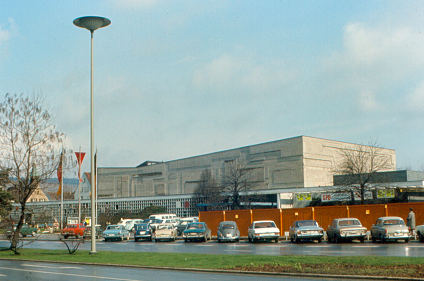 The Harmonie in Heilbronn was opened in 1958. It is like a convention center, and also had a restaurant. It is on the east side of the Allee, a boulevard where the city walls once stood. The Harmonie replaced an earlier building that was destroyed in World War II. It has since been rebuilt as a larger facility.